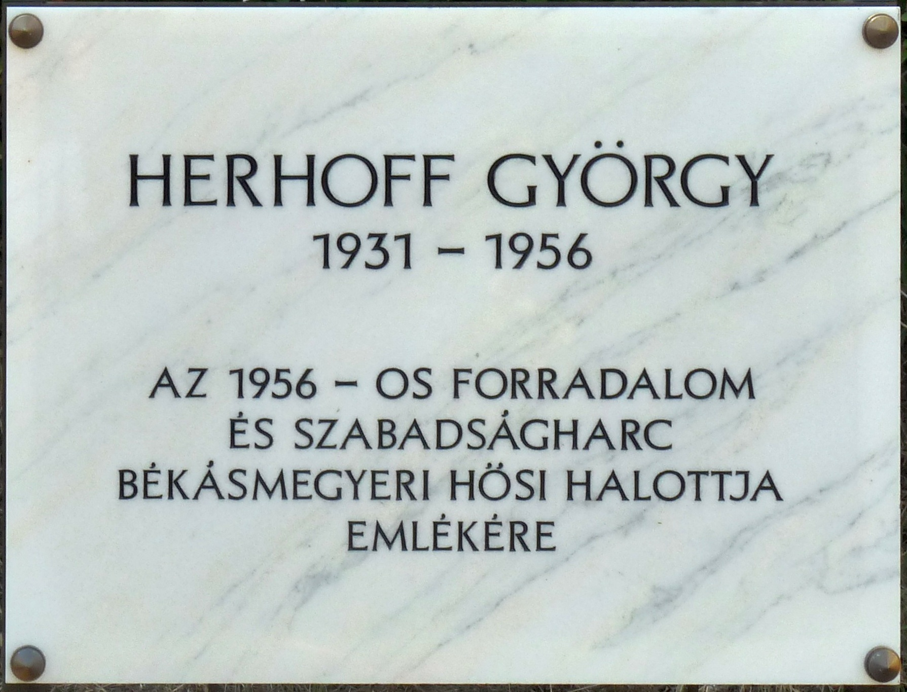 György Herhoff commemorative plaque in Budapest District III, Herhoff György Street No 22.